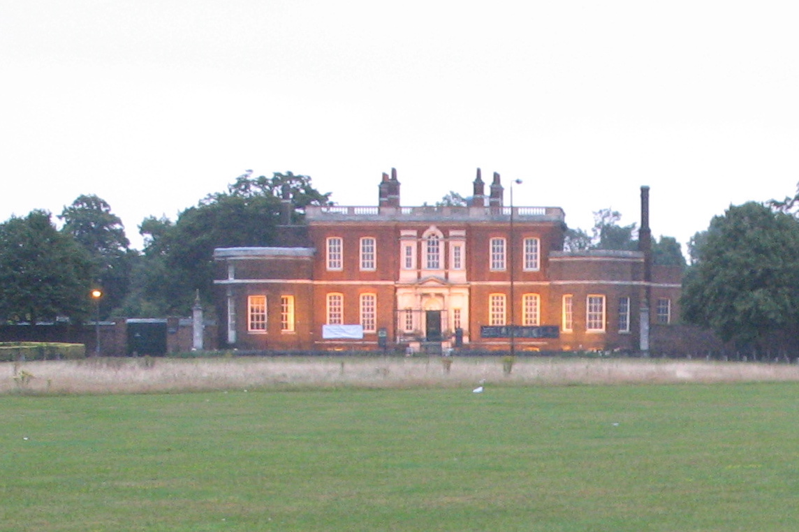 Ranger's Hill, Greenwich, London, taken at dusk (8pm) from Shooters Hill Road